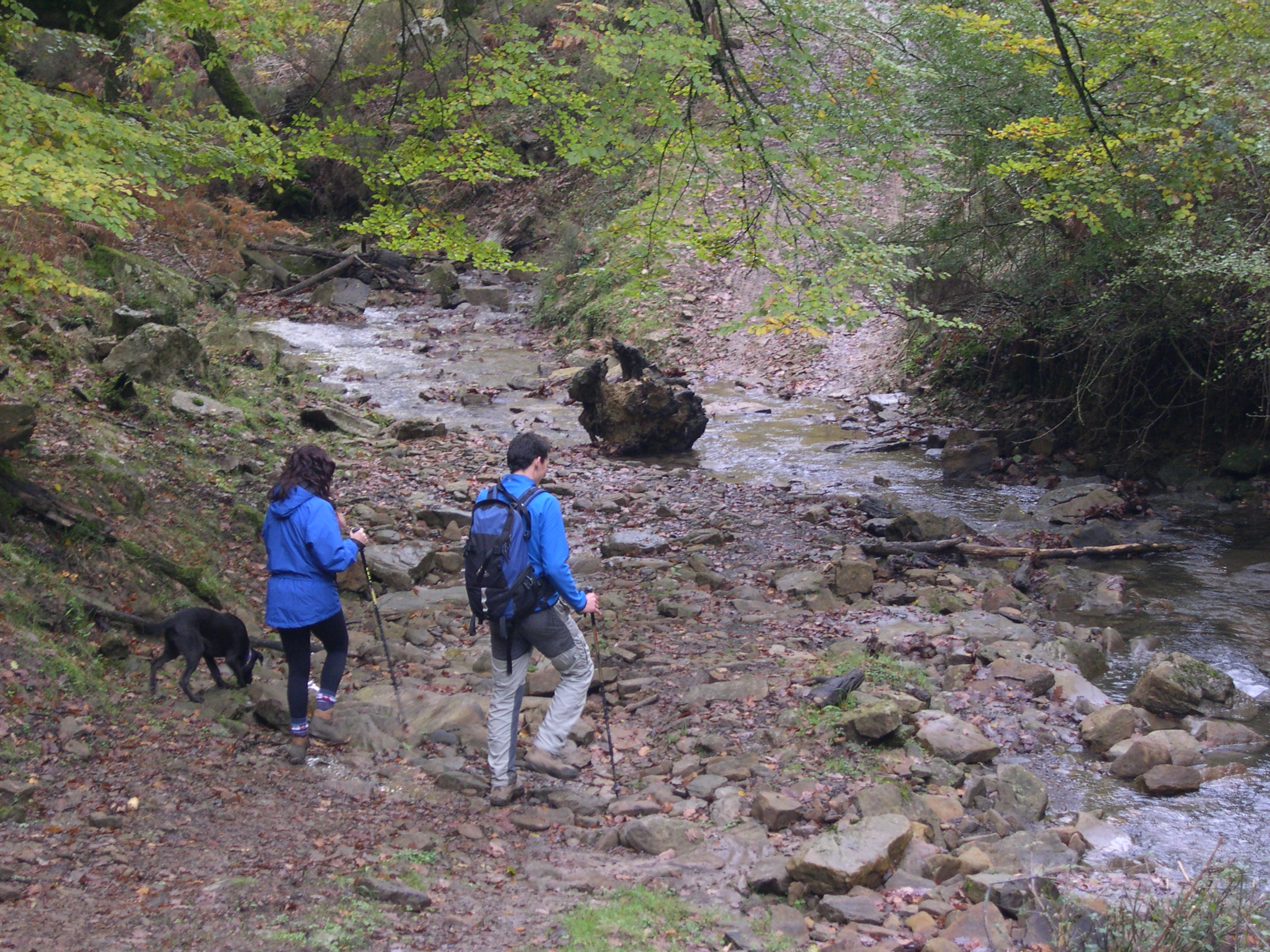 Gorbeia Park. South of Biscay. Basque Country